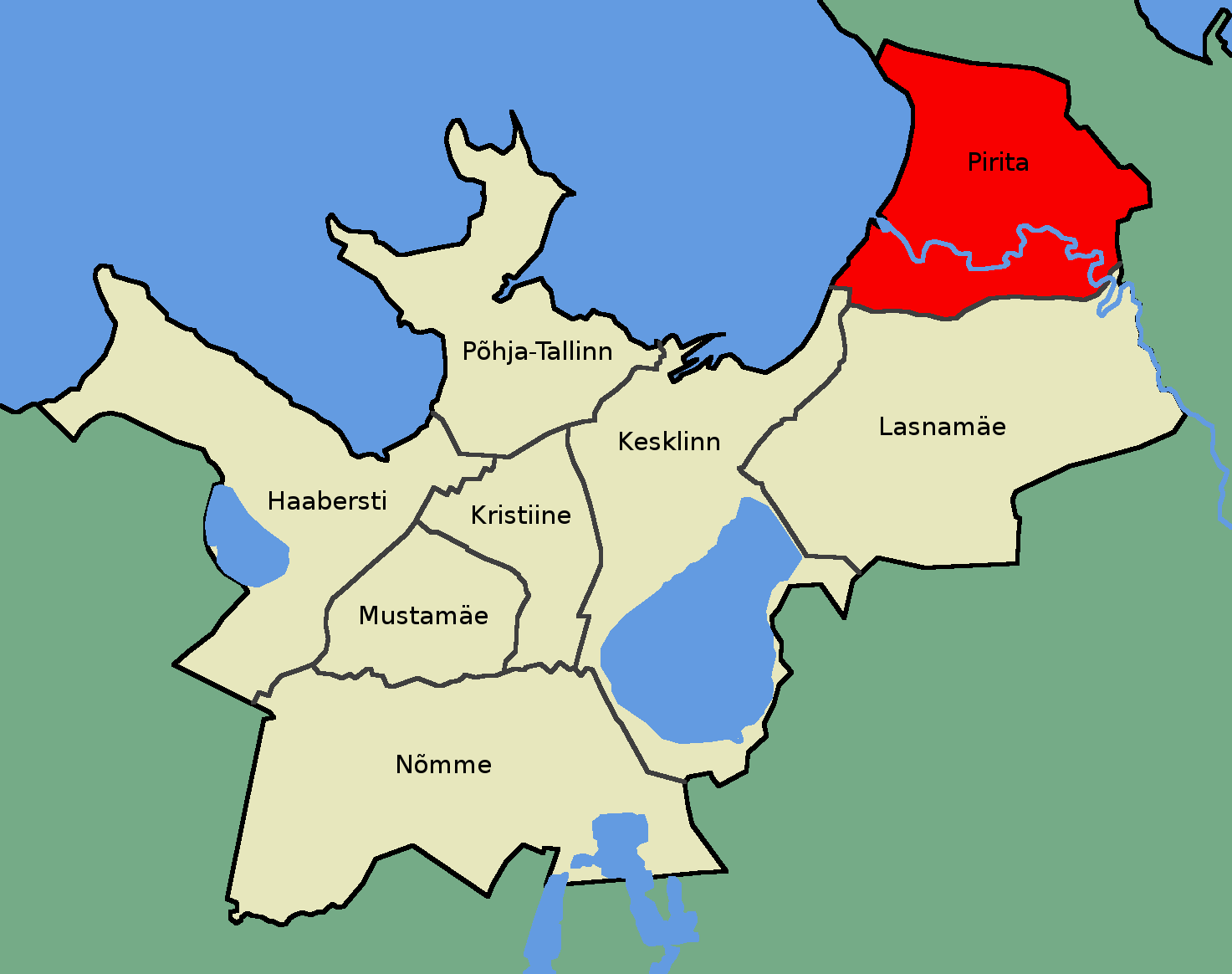 Tallinn (Estonia), the city district of Pirita, with legend